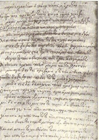 Manuscript of Stathis, Greek text